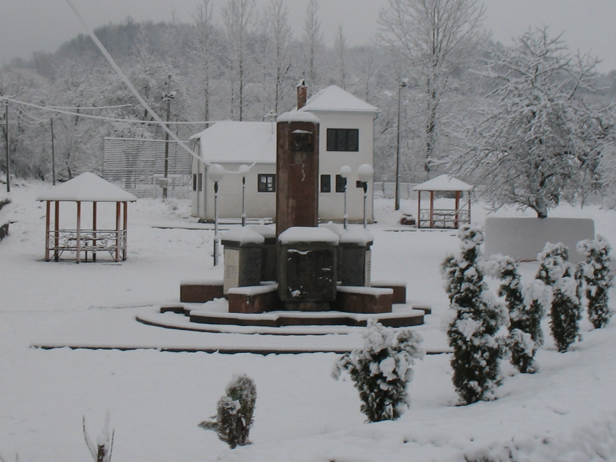 WWII memorial in Donji Dušnik in Gadžin Han municipality,Serbia.